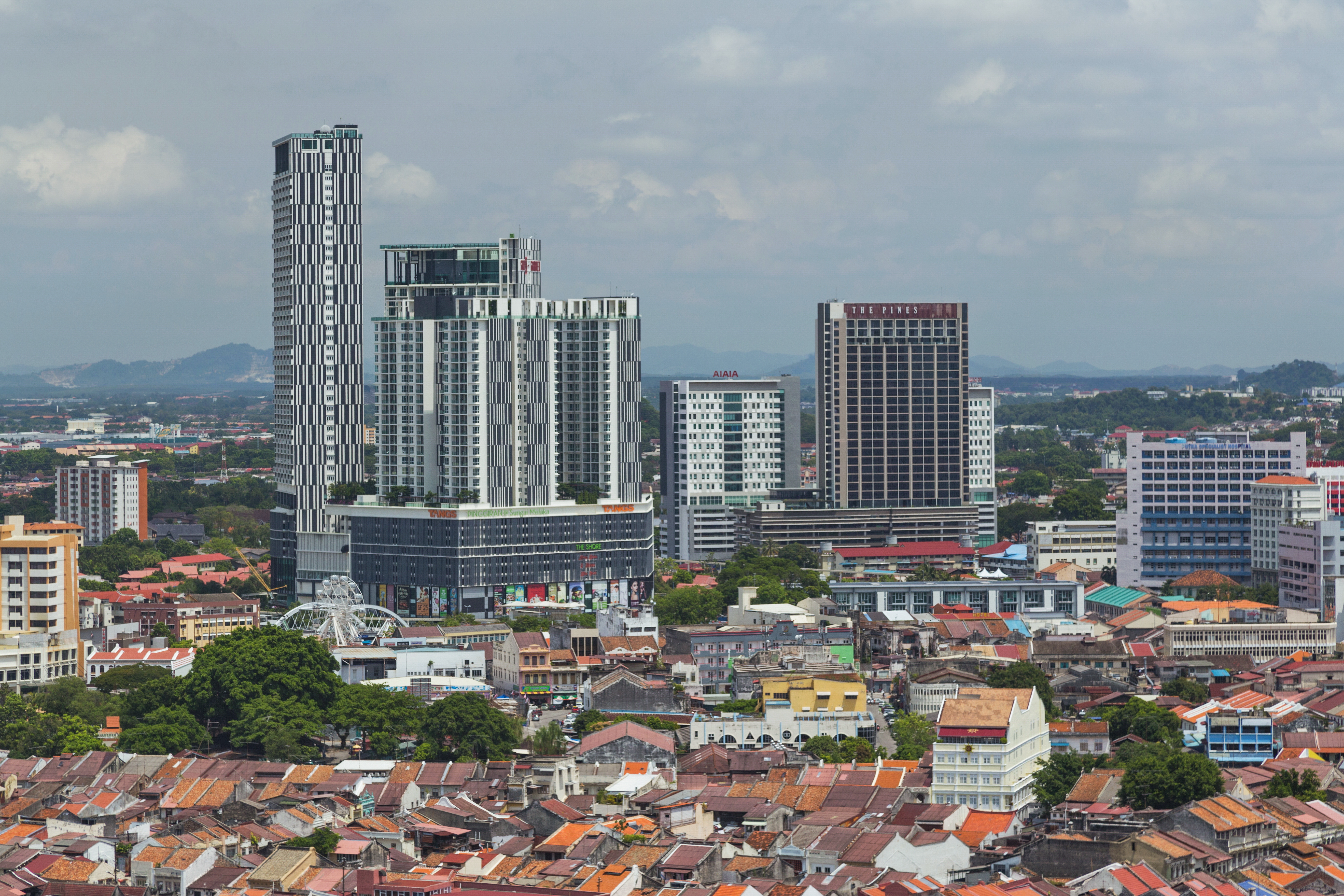 The views of the city seen from the Taming Sari Tower. Malacca City, Malacca, Malaysia.